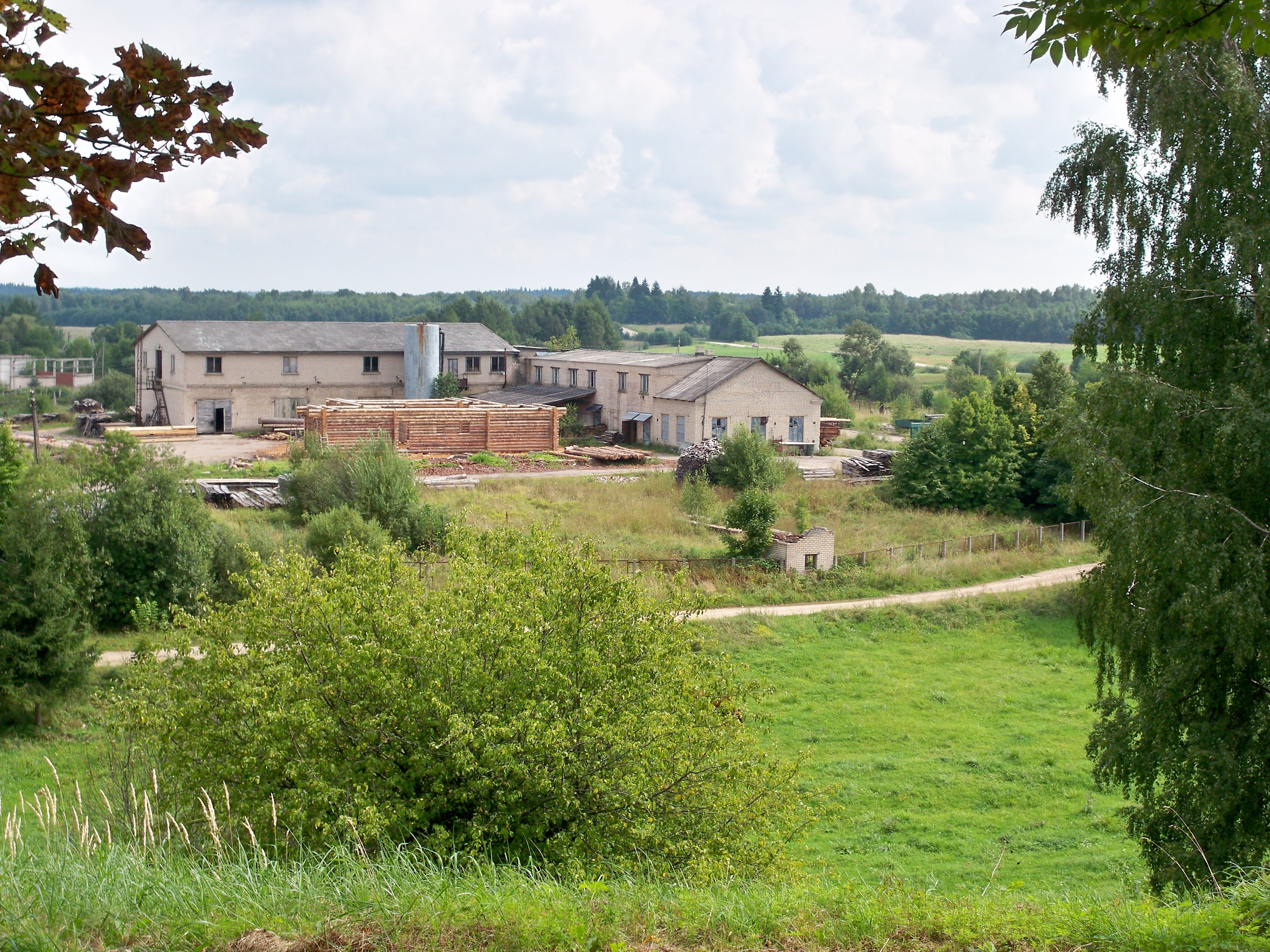 Daugailiai former kolkhoz buildings.